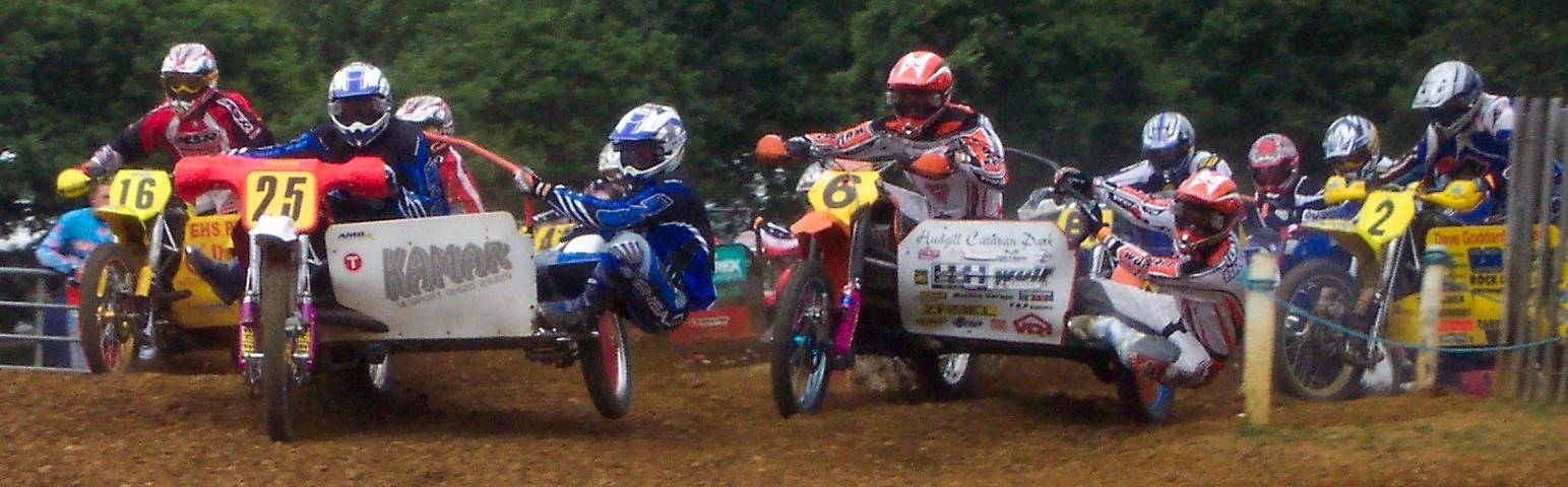 Sidecar Motocross (Sidecarcross), Sidcup & DMCC's July MX 2004 at Canada Heights, Kent, UK. A round of the British Sidecar Clubman's Championship. Holeshot of moto 1. No 16, Steve Peters and Craig Burt (KTM VMC). No 25, Dave Short and Paul Hutchman (Zabel VMC). No 6, John Watson and Mark Watson. No 2, Mark Banks and Pete Davis.